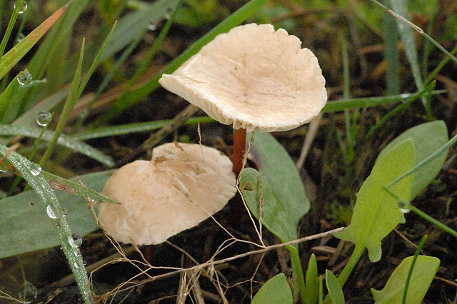 Marasmius scorodonius from Commanster, Belgium. The determination of the species shown in this picture has been verified.